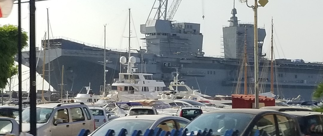 On June 27th, 2019 I took this picture of the LHD from the window of a moving car. Later that day consulting with friends I misidentified the ship as the Italian Aircraft carrier Cavour. Upon closer inspection, we realized the two looked nothing alike. The Picture shows the Trieste's duel island design and the recent addition of a ramp on the flight deck, likely to accommodate the F-35B.